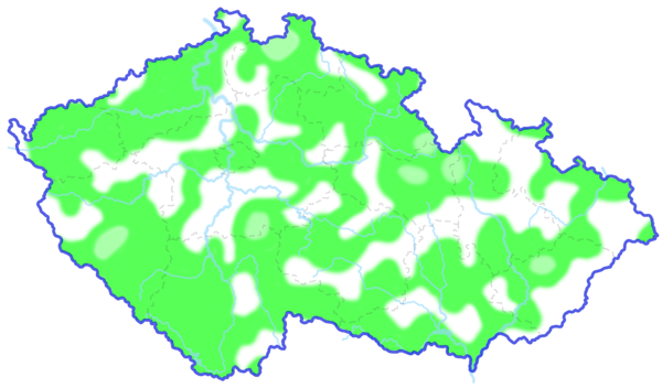 Distribution of brown rat (Rattus norvegicus) in the Czech Republic